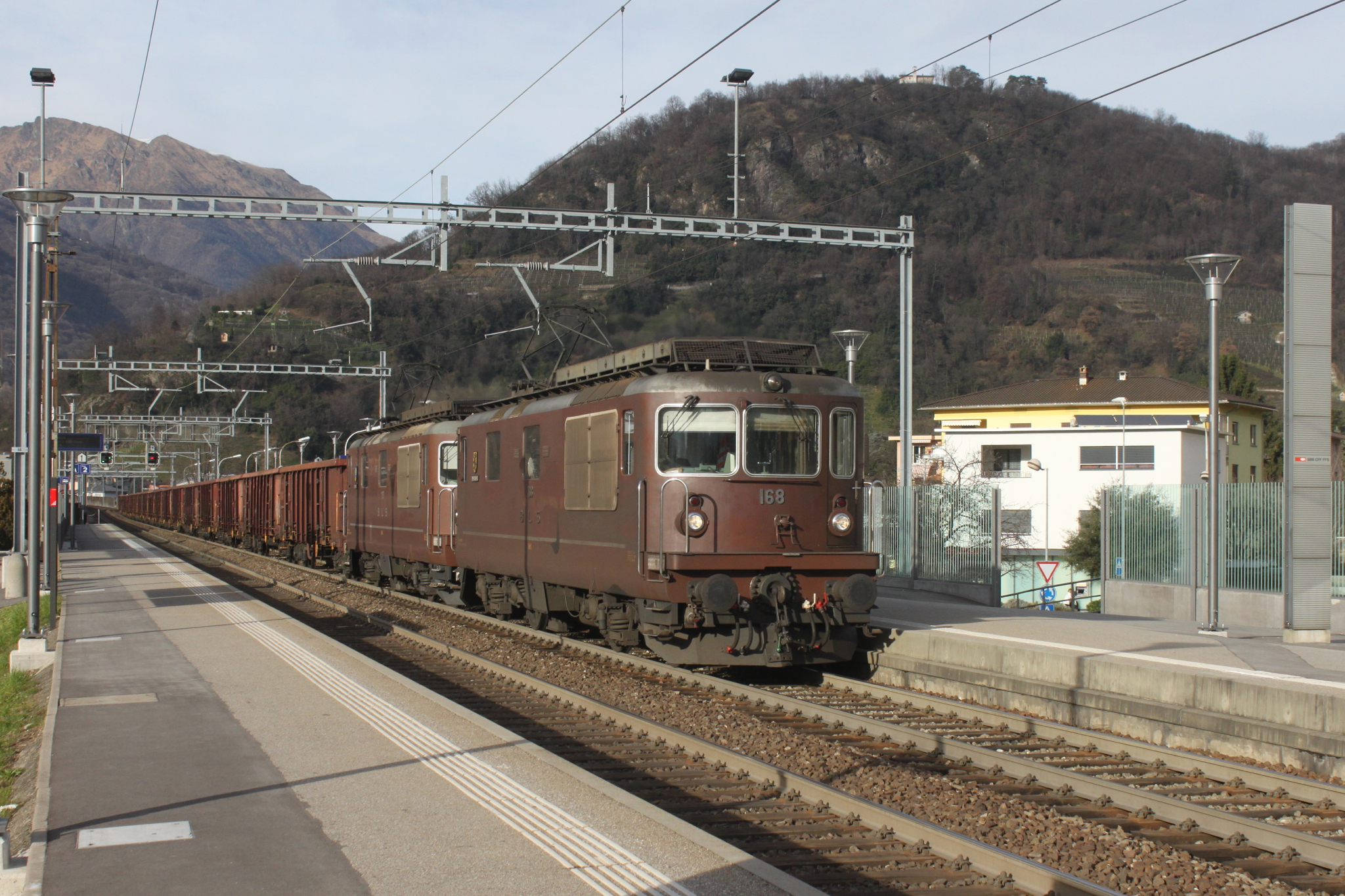 BLS Re 4/4 168 and 175 at Lamone-Cadempino.